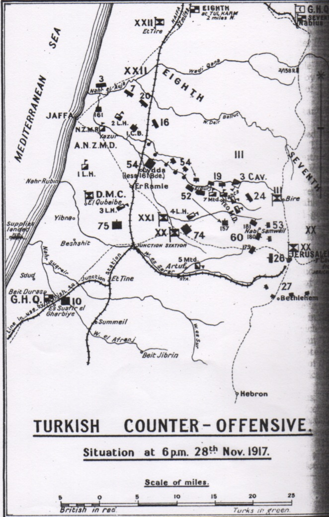 Battle for Jerusalem 1917. Map showing Ottoman counter-offensive. Situation at 1800 28 November 1917.